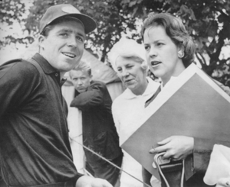 1961 Masters Golf Winner Gary Player with Wife Vivenne & Mother Press Photo